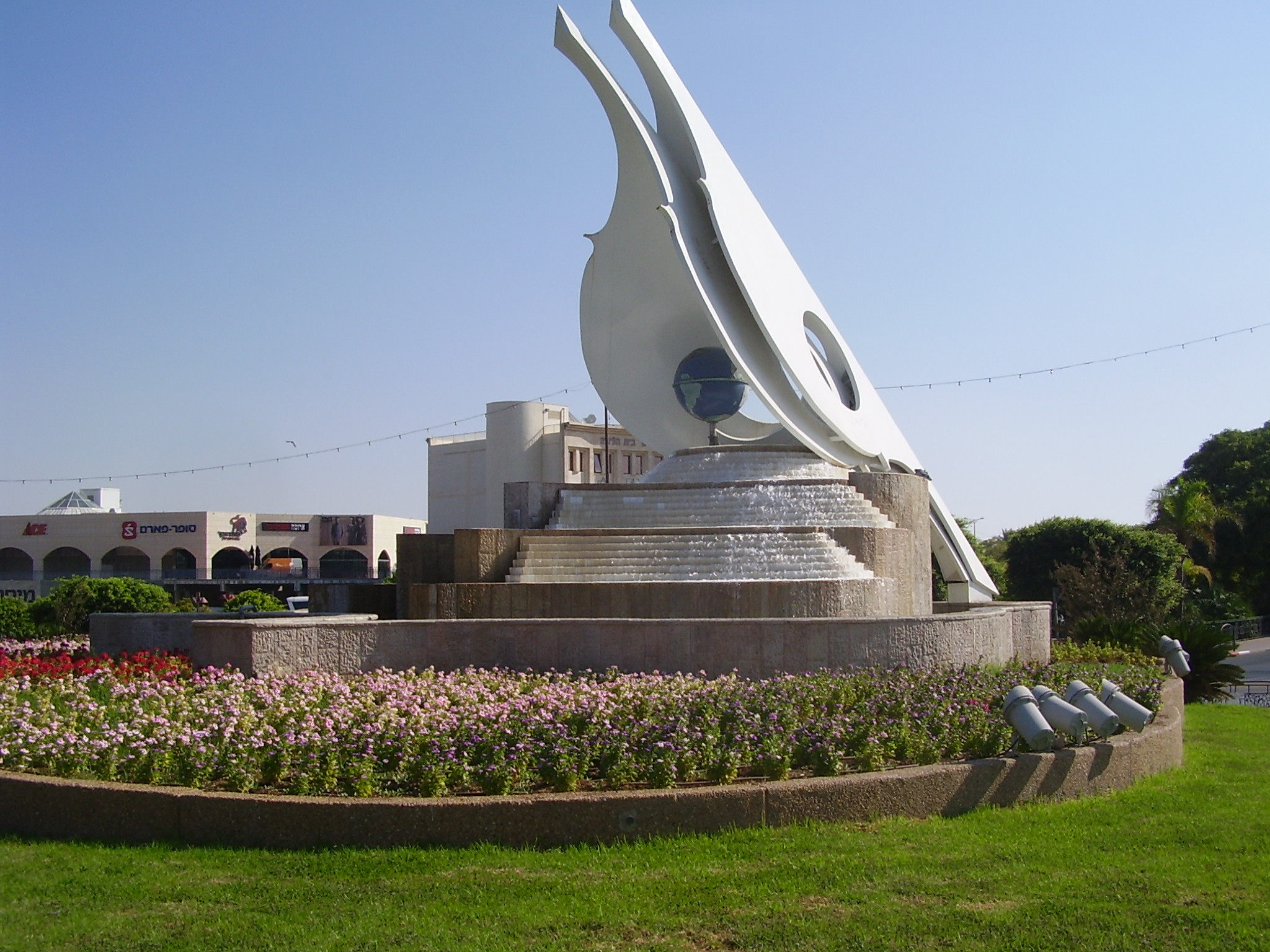 Ma'ale Adumim Town Square - Deuteronomy 32:11 : "like an eagle that stirs up its nest and hovers over its young, that spreads its wings to catch them and carries them aloft."